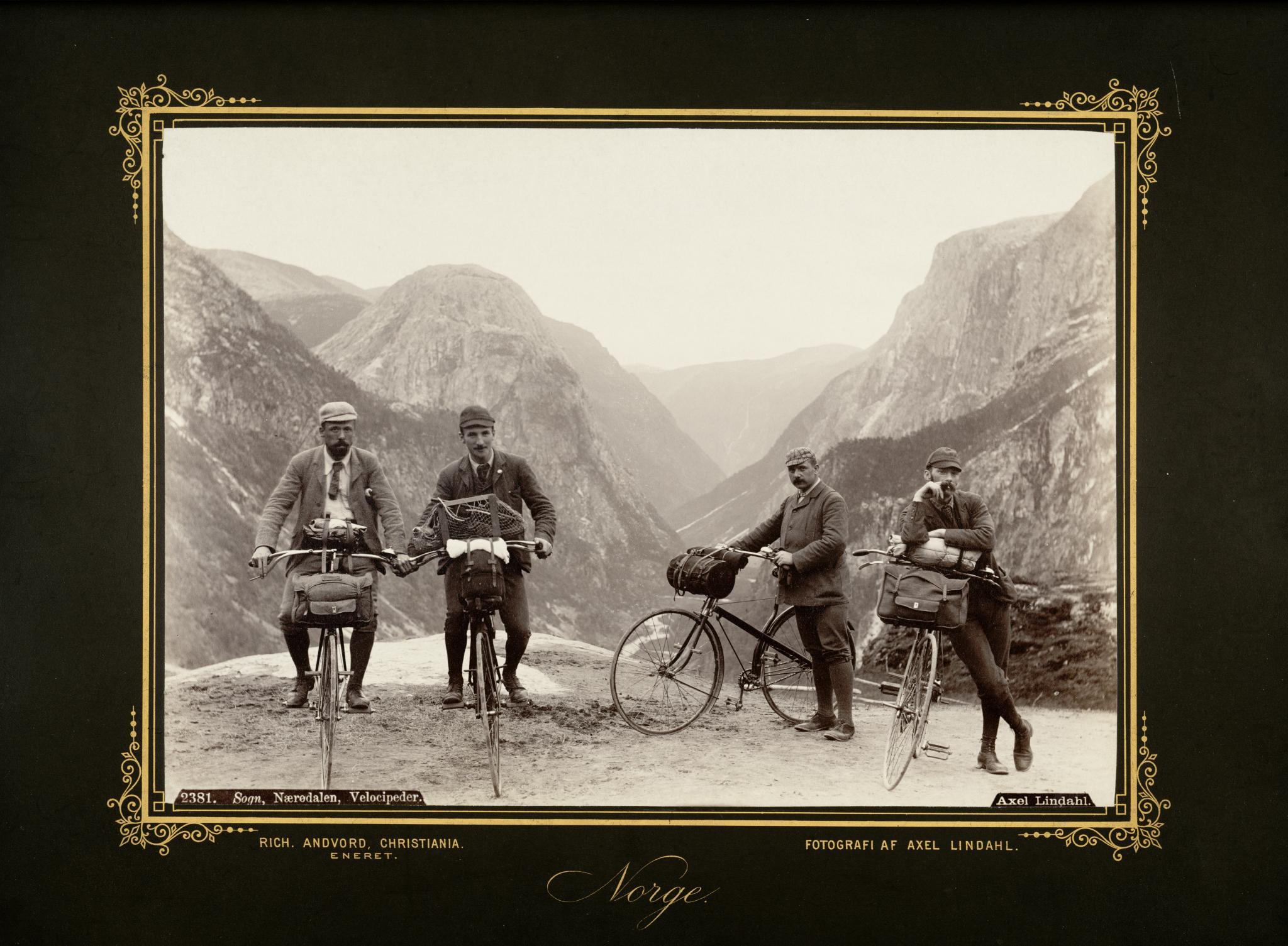 Motiv / Motif: 4 uidentifiserte menn på sykkeltur. Dato / Date: 1880-1890 Sted / Place: Sogn og Fjordane, Aurland, Nærøydalen Fotograf / Photographer: Axel Lindahl (1841-1906) Utgiver / Publisher: Rich. Andvord (Christiania) Digital kopi av original / Digital copy of original: s/h papirpositiv, albumin Eier / Owner Institution: Nasjonalbiblioteket / National Library of Norway Lenke / Link: Bildesignatur / Image Number: bldsa_AL2381